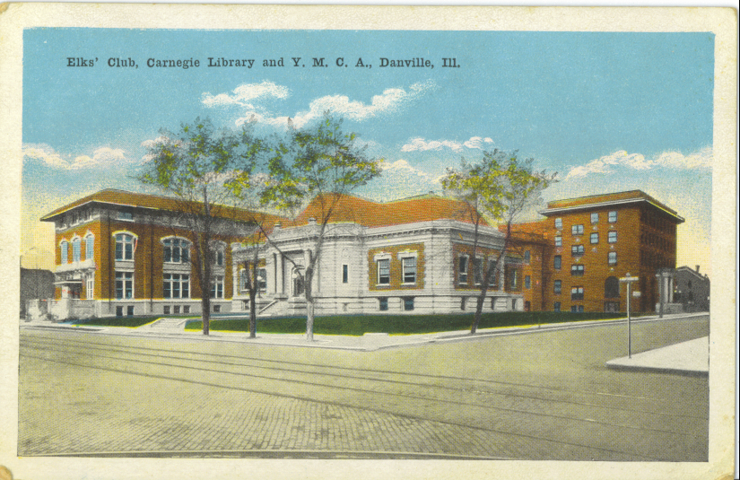 From left to right, the Elks Club, Carnegie library and YMCA buildings in Danville, Illinois, USA circa 1920